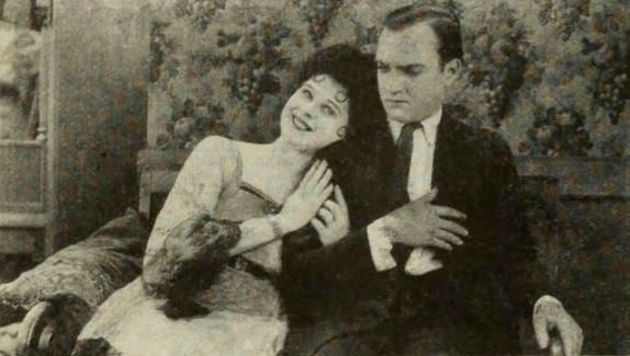 Still from the American comedy film The Crossroads of New York (1922) with Ethel Grey Terry and George O'Hara, on page 64 of the August 1922 Photoplay.